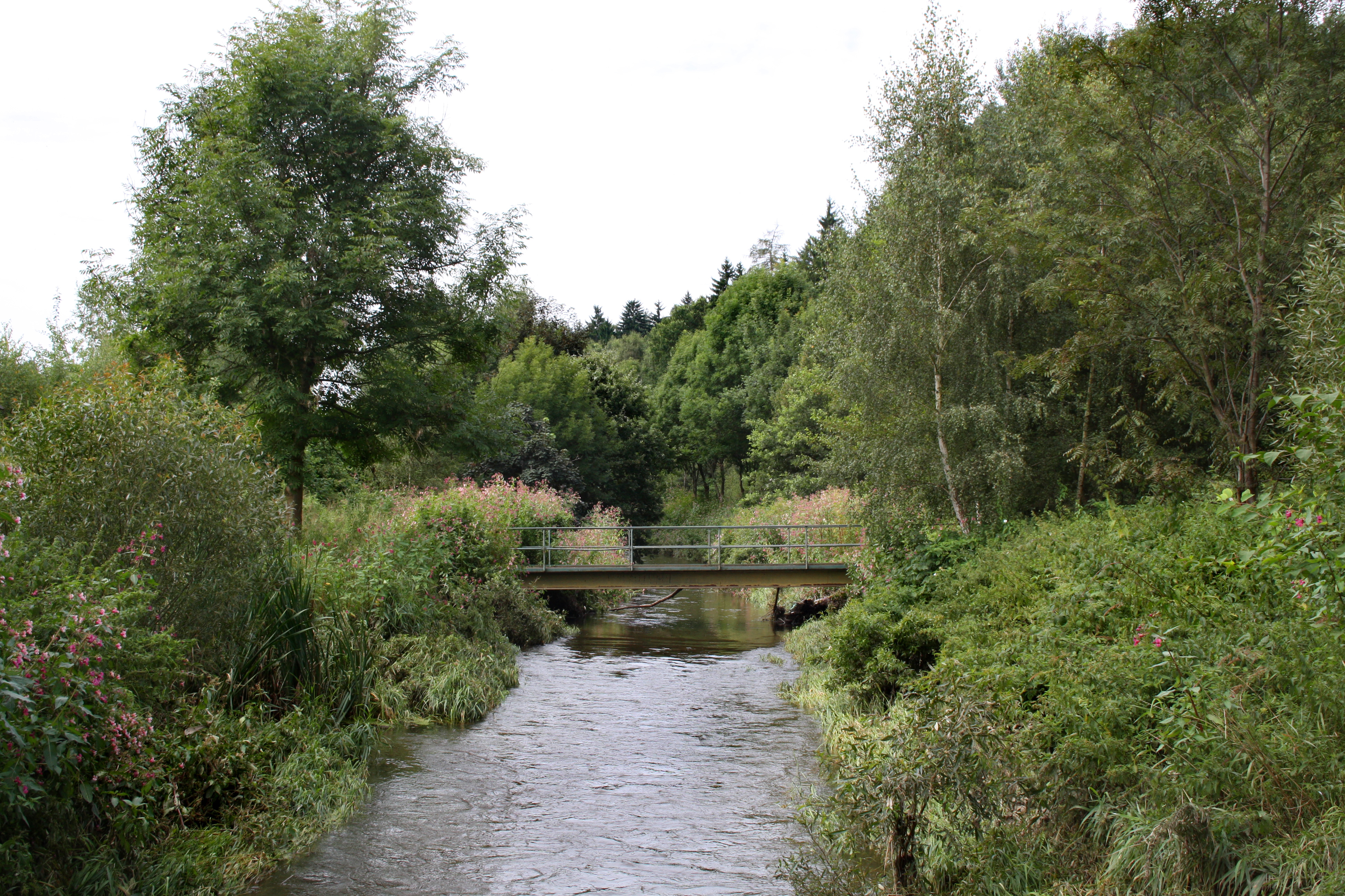 Bělá river by Radětín, part of Pelhřimov, Czech Republic